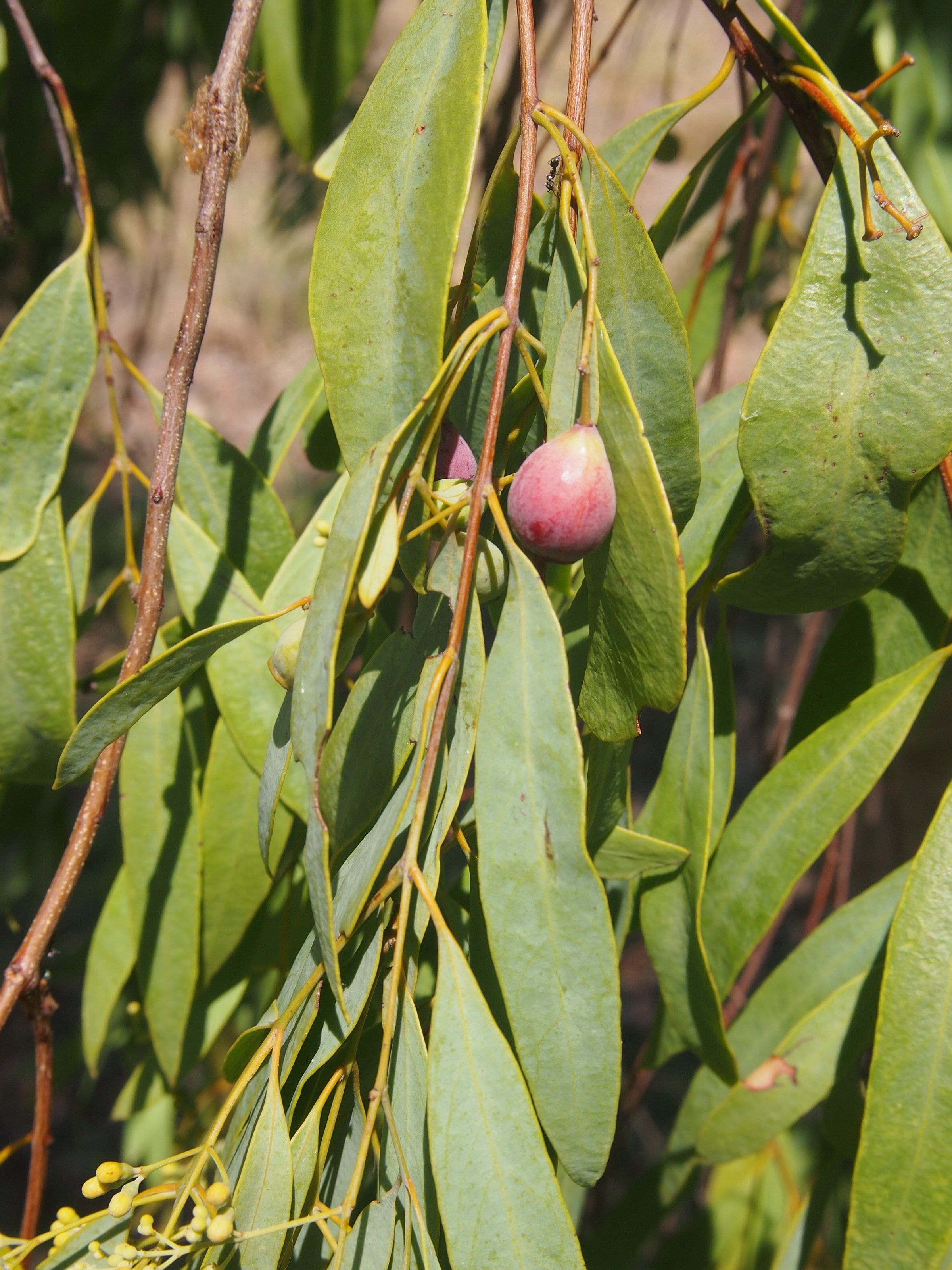 Sandalwood fruit